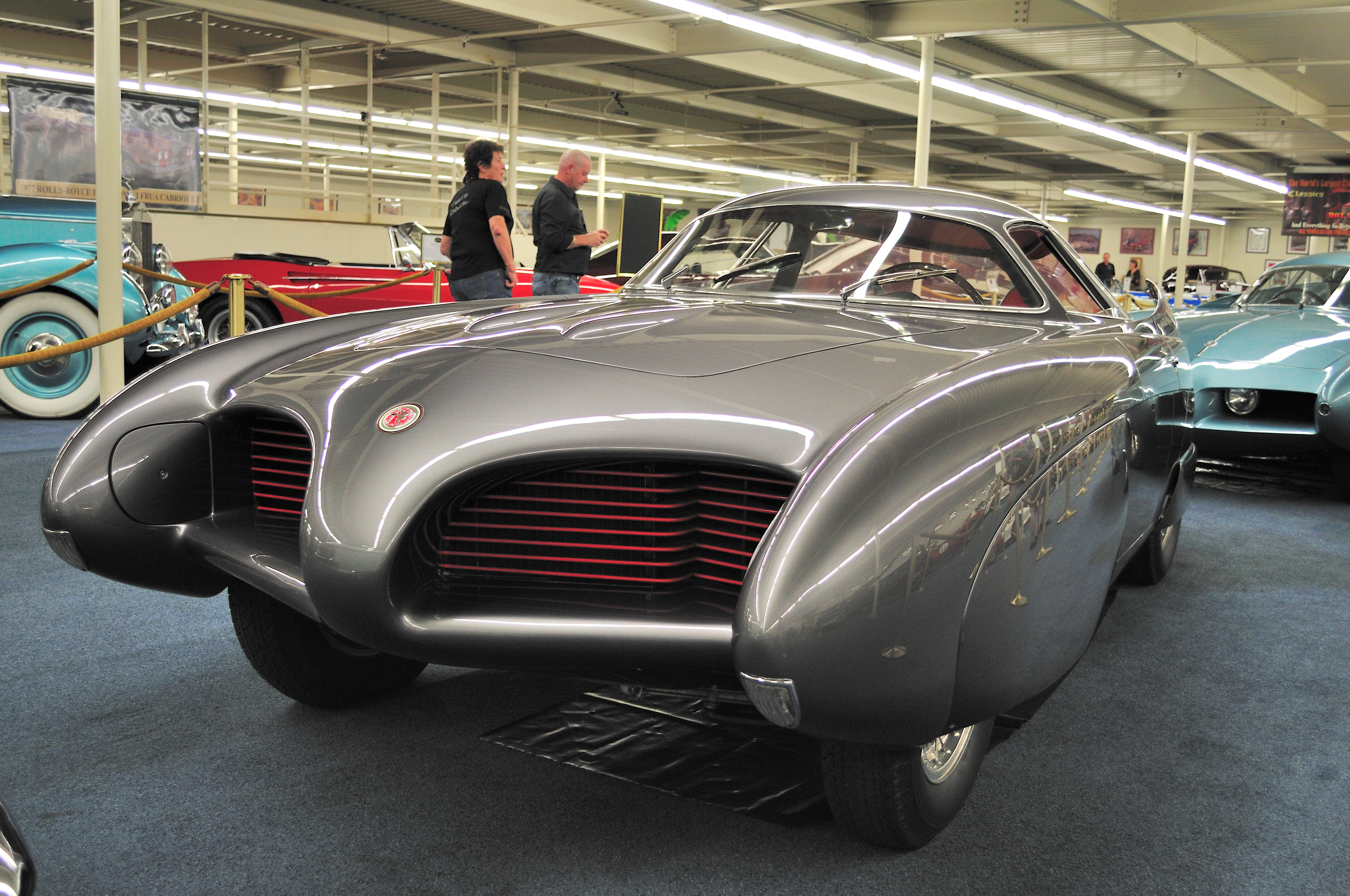 BAT5 was the first of the Bertone-Alfa Romeo BAT project. It was first shown at the Turin Auto show in 1953. The design of the model was based on a study of aerodynamics. The shape of the front in fact aims to eliminate the problem of airflow disruption at high speeds. The design also aims to do away with any extra resistance generated by the wheels turning, as well as achieving a structure which would create the fewest possible air vortices. In practice these rigorous criteria would allow the car to reach 200 km/h with the 100 hp engine mounted as standard. The design that Bertone came up with was for an extremely light car (1100 kg), the ultimate in streamlining, with side windows at a 45 degree angle respect to the body of the car and a large windscreen which blends in perfectly with the almost flat roof. The most surprising part of the car has to be the tail, with the length-ways rear windscreen divided by a slim pillar, and the two fins tapering upwards and slightly inwards, for a highly aesthetic finish. There was no shortage of positive feedback: the car was an immediate hit for its aerodynamics and noteworthy stability at high speeds. Bertone has solved the problem of aerodynamic stability, creating a car with an excellent index of penetration.